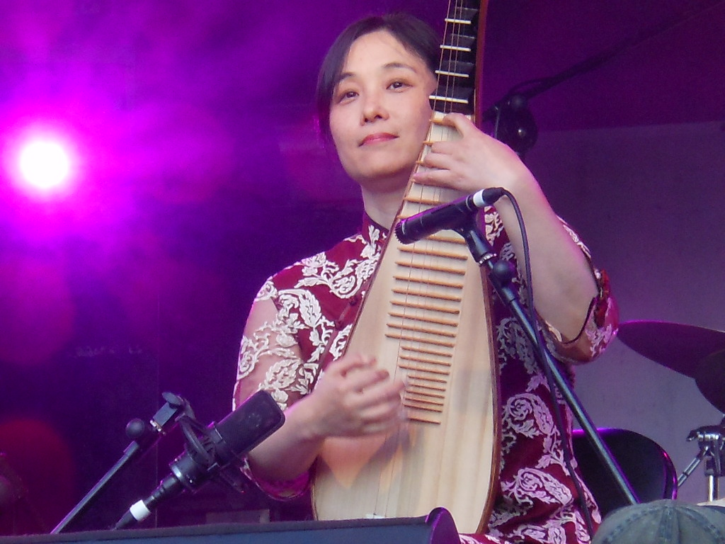 Wu Man performing at WOMAD Earthstation in 2011.